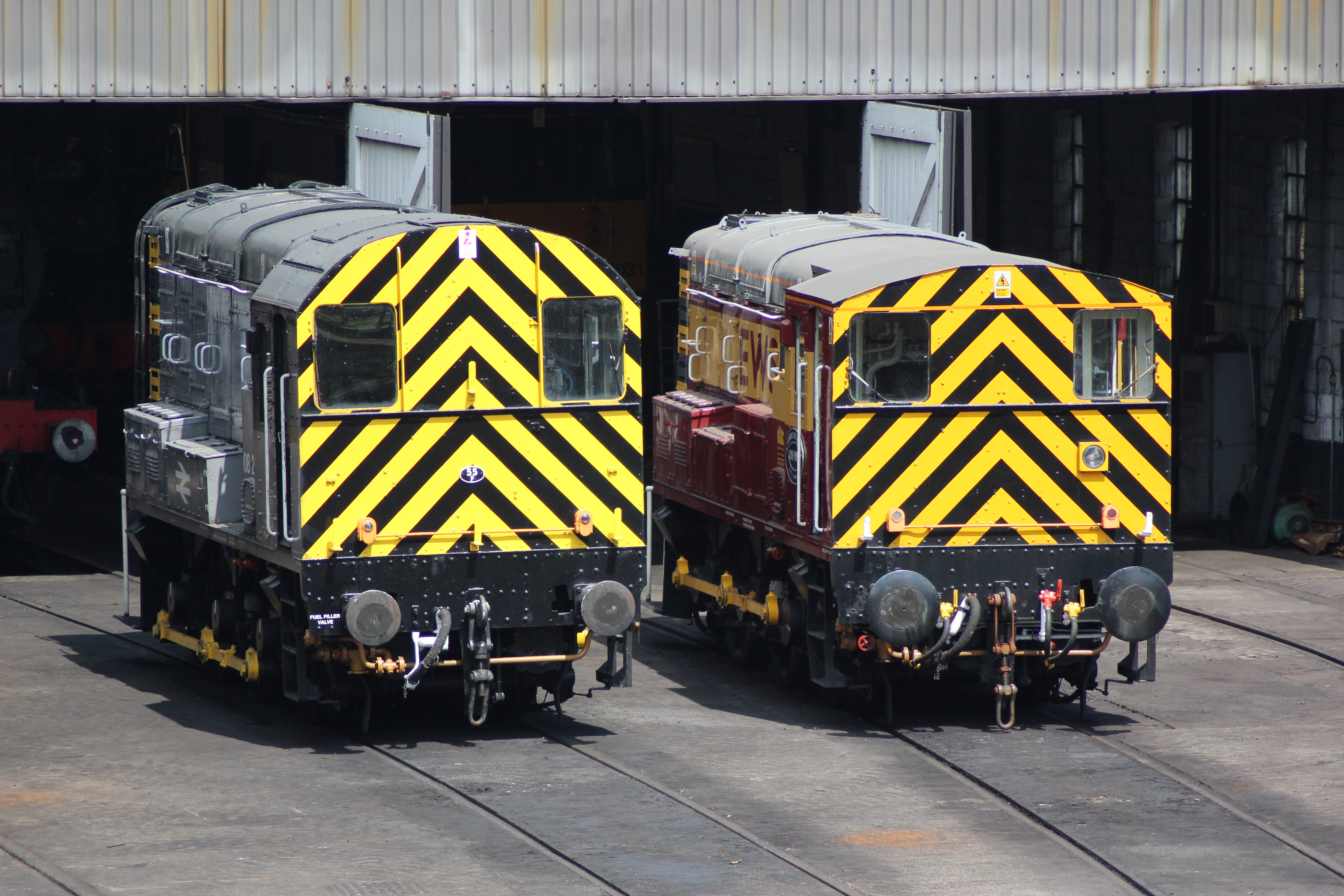 at Haworth shed, K&WVR.